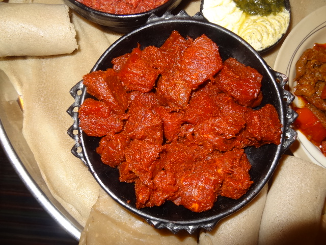 Most Ethiopians are fond to eating raw meat. This one is cubic chopped raw meat rolled on a hot chillie pepper. This is an image of food from Ethiopia